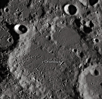 Orontius lunar crater as seen from Earth with satellite craters labeled